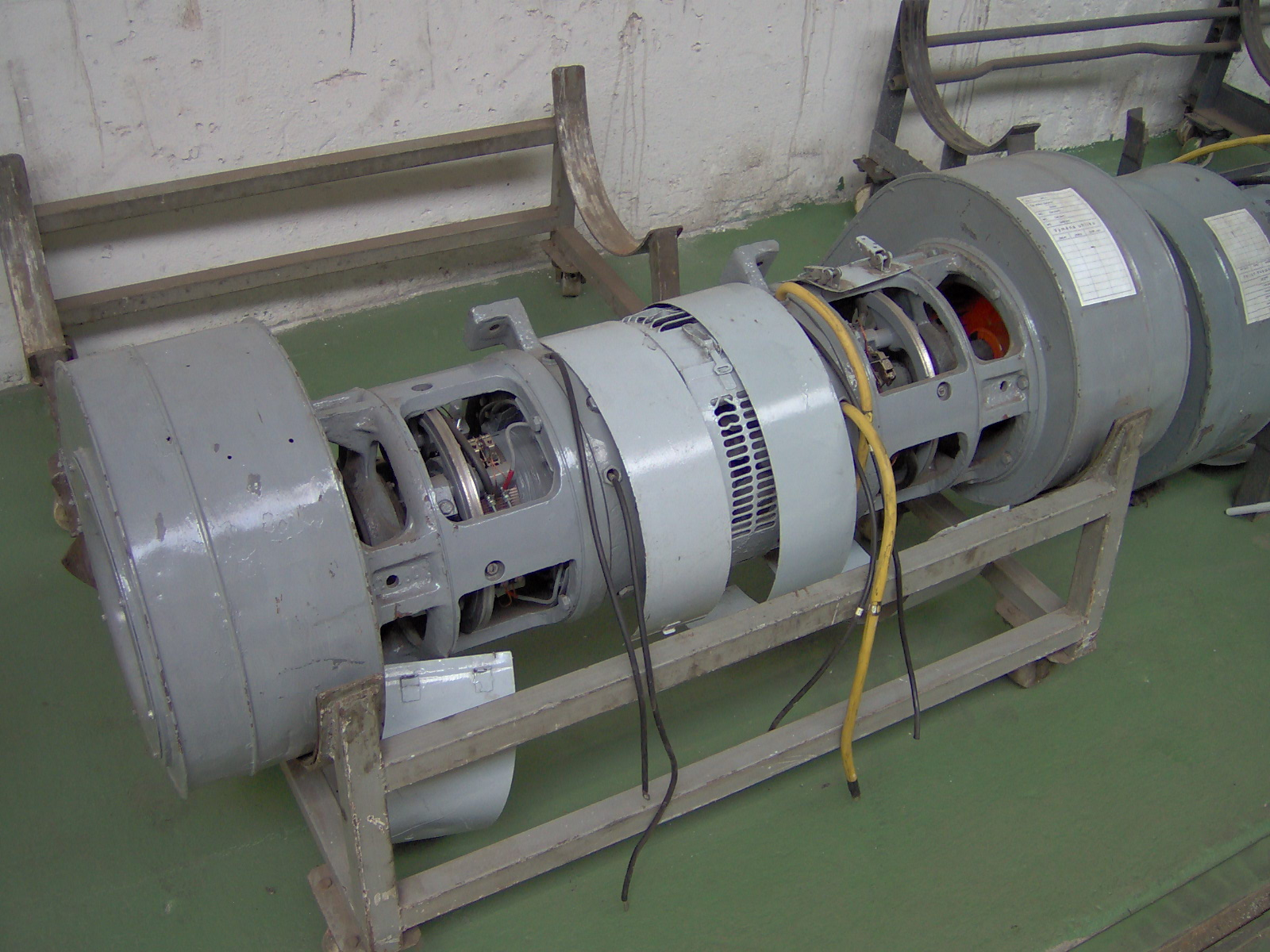 Motor-generator of Tatra T3 and Tatra K2 trams